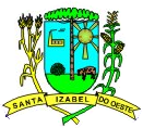 Coats Of Arms Santa Izabel do Oeste